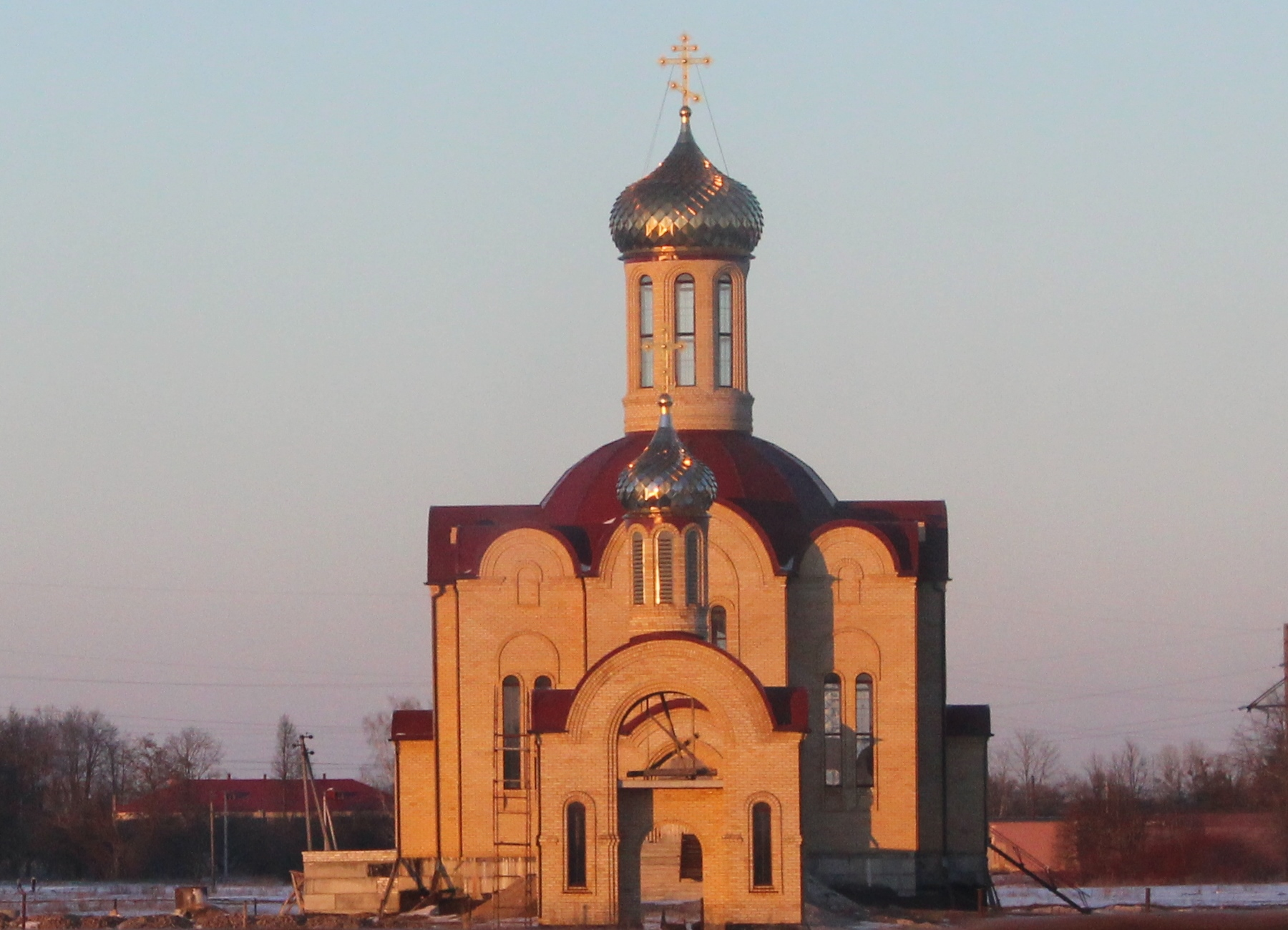 Church of sacred New martyrs and confessors of Belarus in Skidel